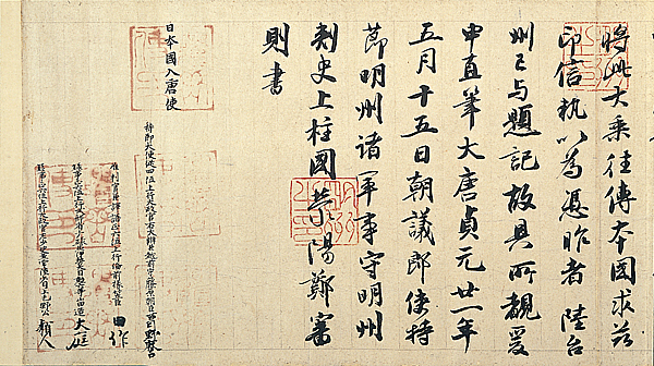 Catalogue of sacred books brought back by Saichō from Tang Dynasty China. One rolled scroll. Located at Enryaku-ji, Ōtsu, Shiga, Japan.